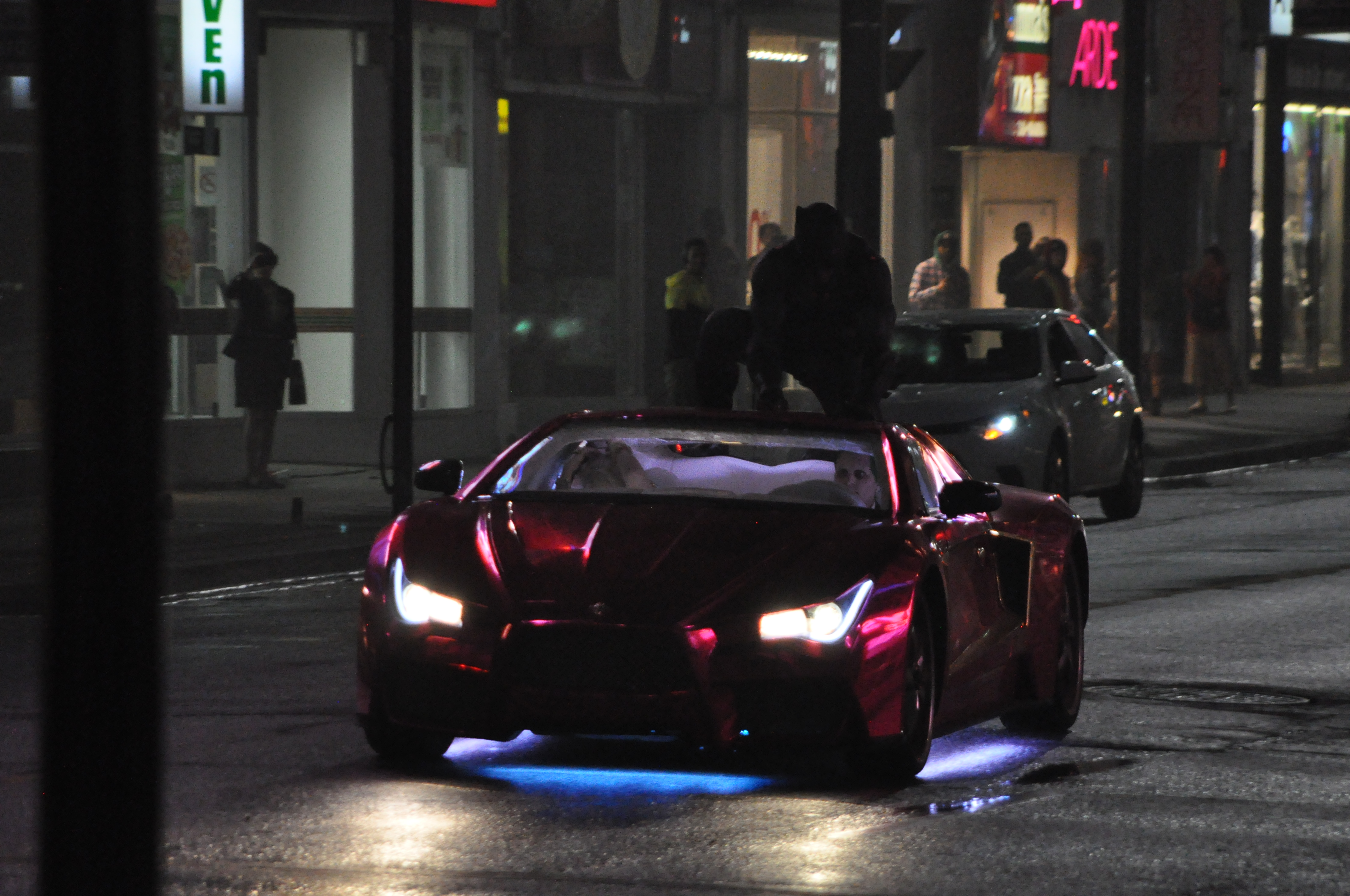 Suicide Squad filming in Toronto.